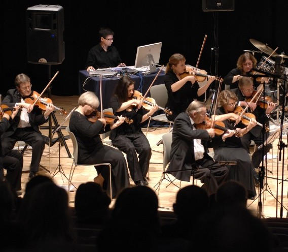 Eduardo R. Miranda and the Ten Tors Orchestra